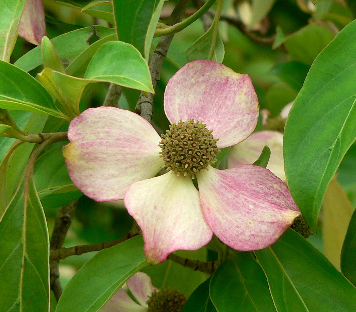 Photo of Cornus capitata at the San Francisco Botanical Garden